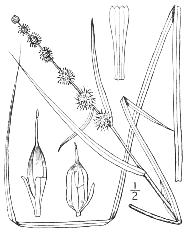 Fig. 170. Sparganium angustifolium from the second edition of An Illustrated Flora of the Northern United States, Canada and the British Possessions (New York, 1913)